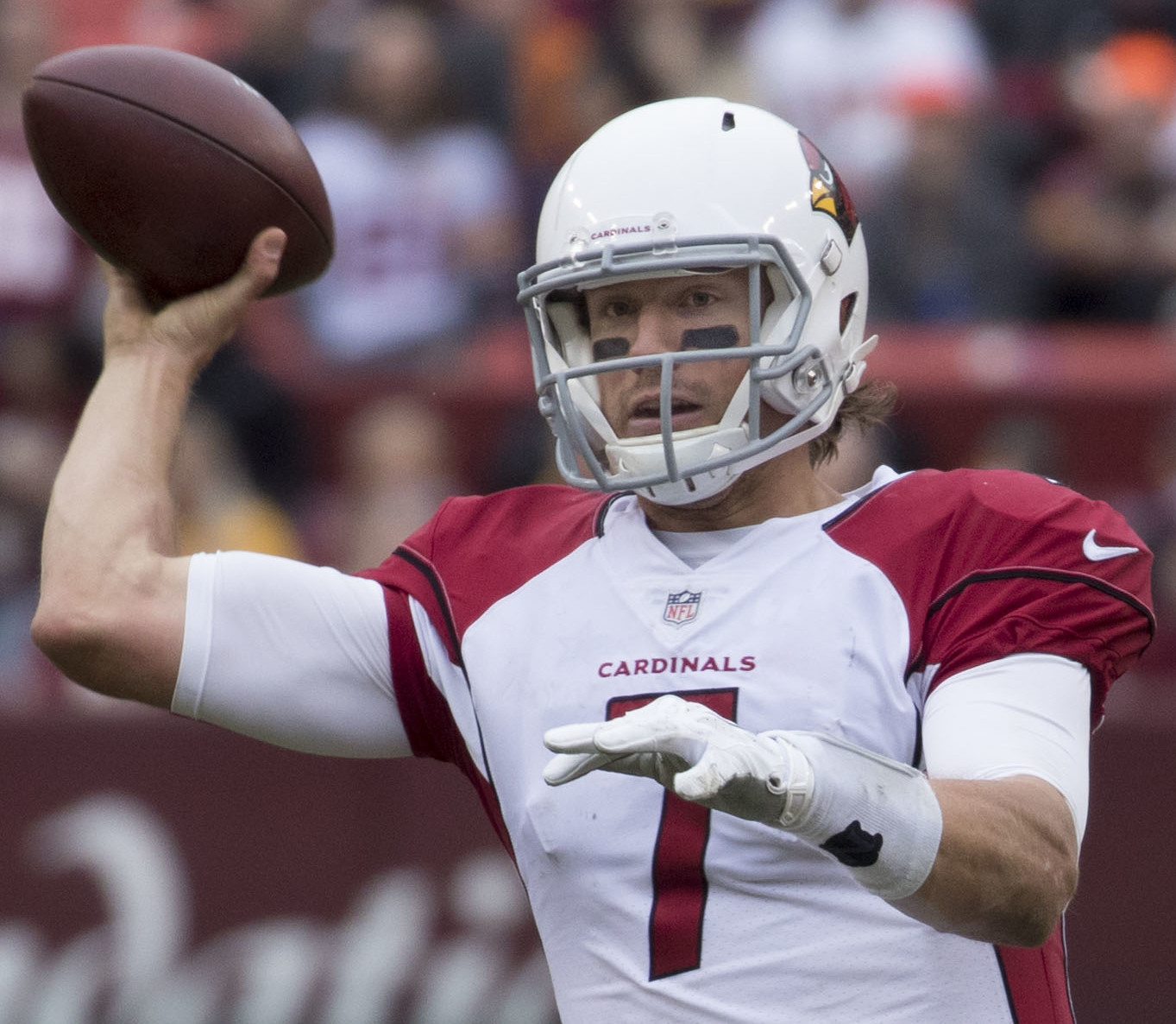 Quarterback Blaine Gabbert of the Arizona Cardinals throws the ball in a game against the Washington Redskins at FedEx Field on December 17, 2017 in Landover, Maryland.